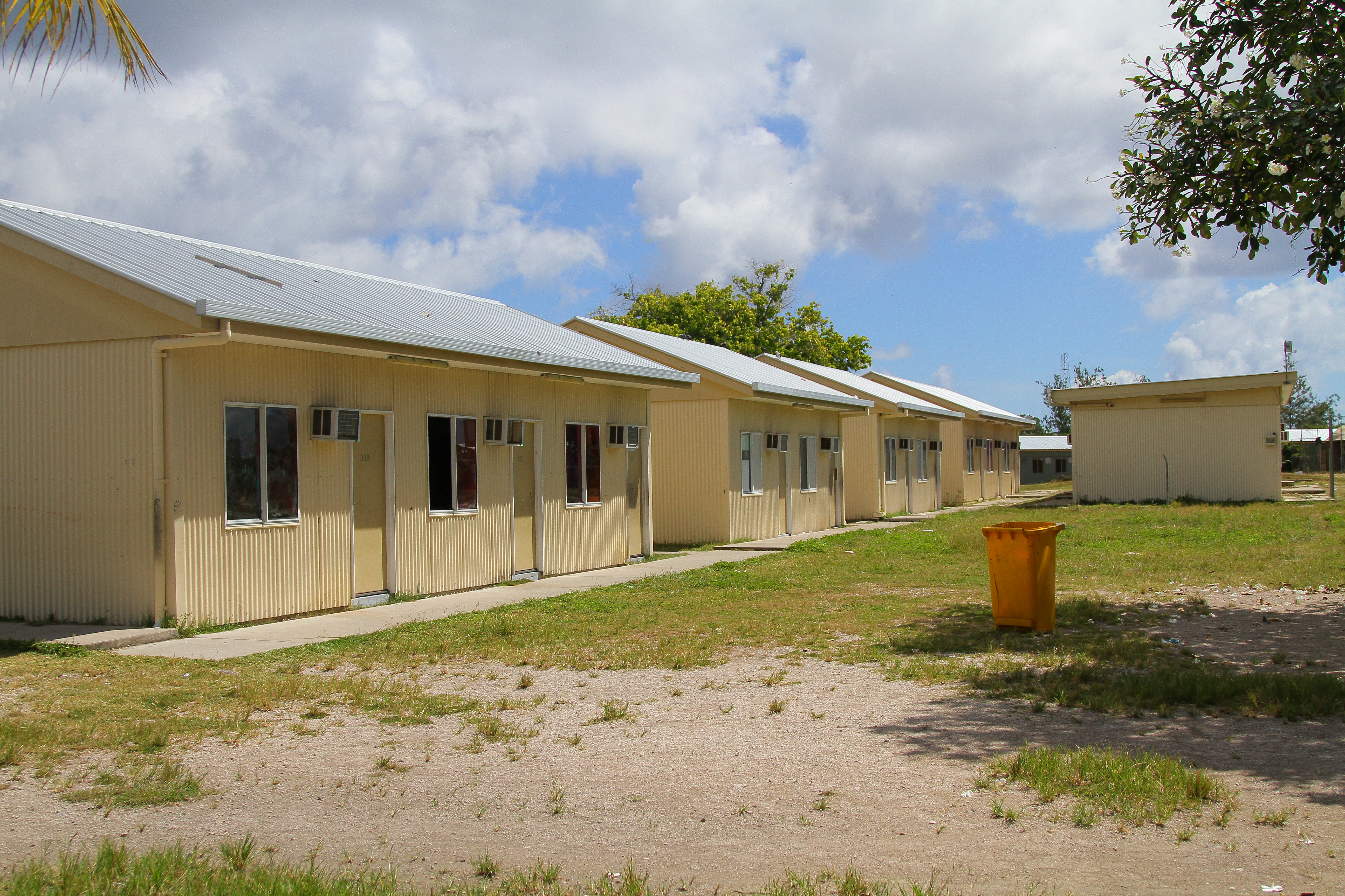 Demountable buildings - State House immigration processing compound, Nauru